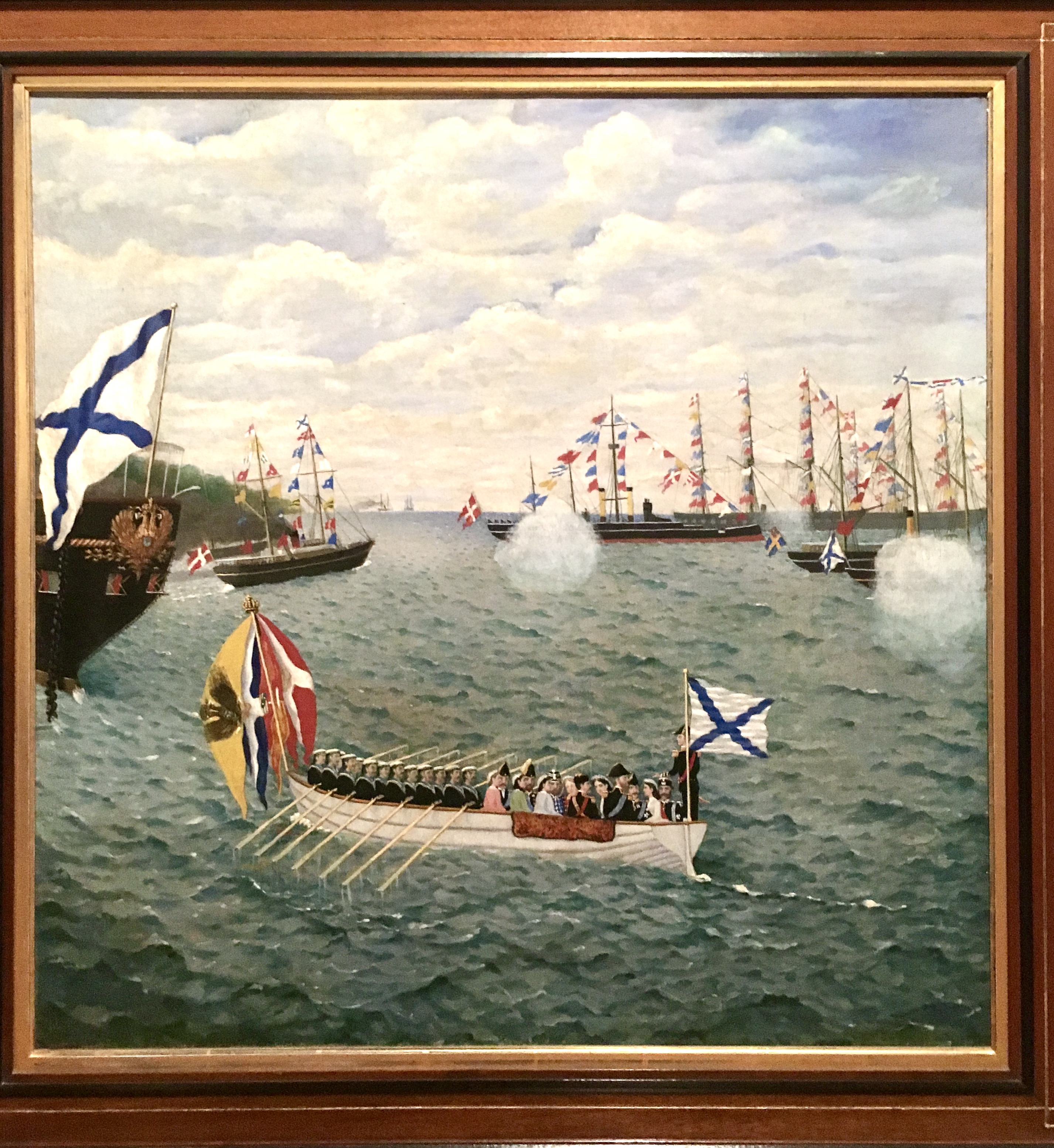 Russian Danish Royal Wedding Scene in the Danish Harbor, Painting Oil on Board by H L Galster in 1885